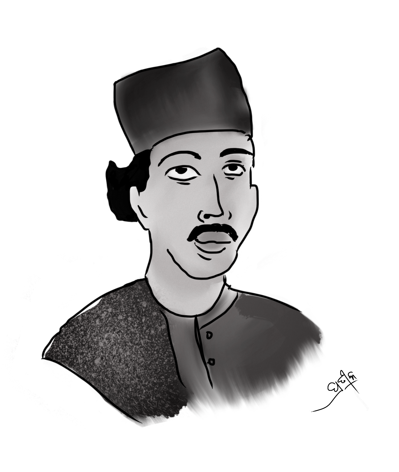 A modern painting of Odia Poet Abhimanyu Samantasinghara based on popular conception of the poet. The image has been made from a rare painting of the poet. Created using Procreate for iOS.